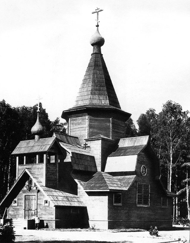 Moscow, 1916, wooden church in Hay Lodge. Destroyed in 1950s, rebuilt in 1990s.